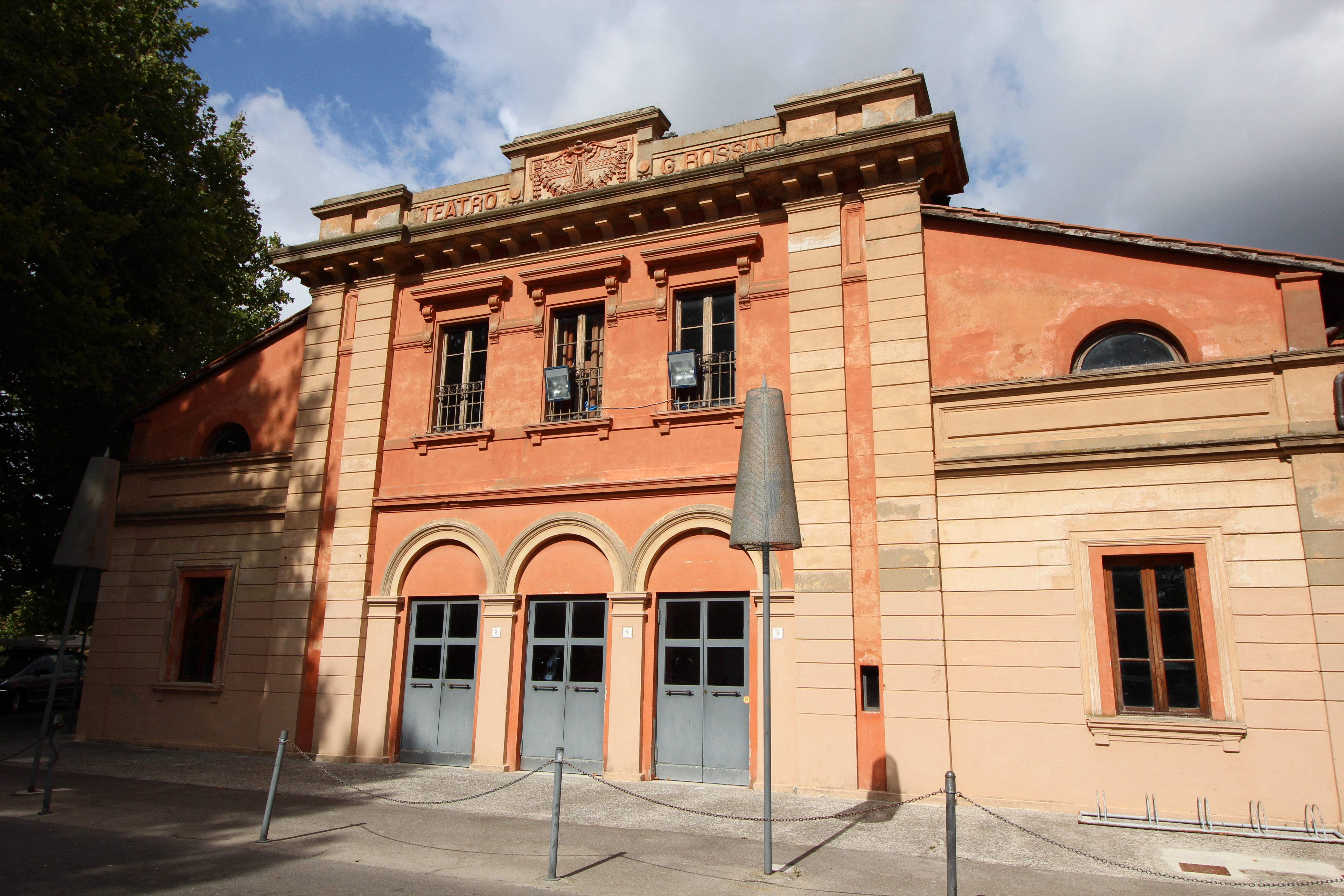 Theater Teatro Rossini, Pontasserchio, hamlet of San Giuliano Terme, Province of Siena, Tuscany, Italy.